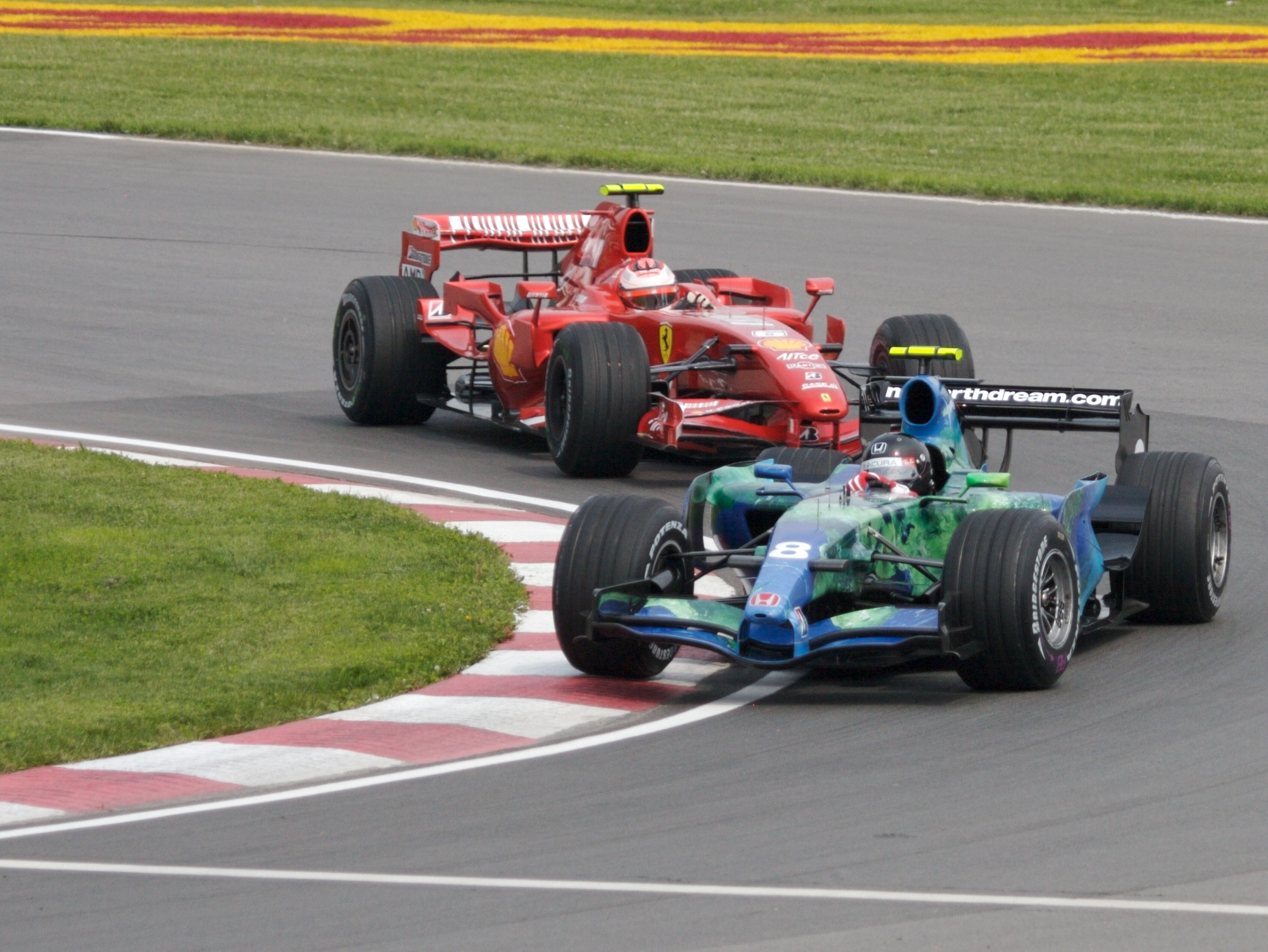 Rubens Barrichello (Honda F1) leads Kimi Räikkönen at the 2007 Canadian Grand Prix.